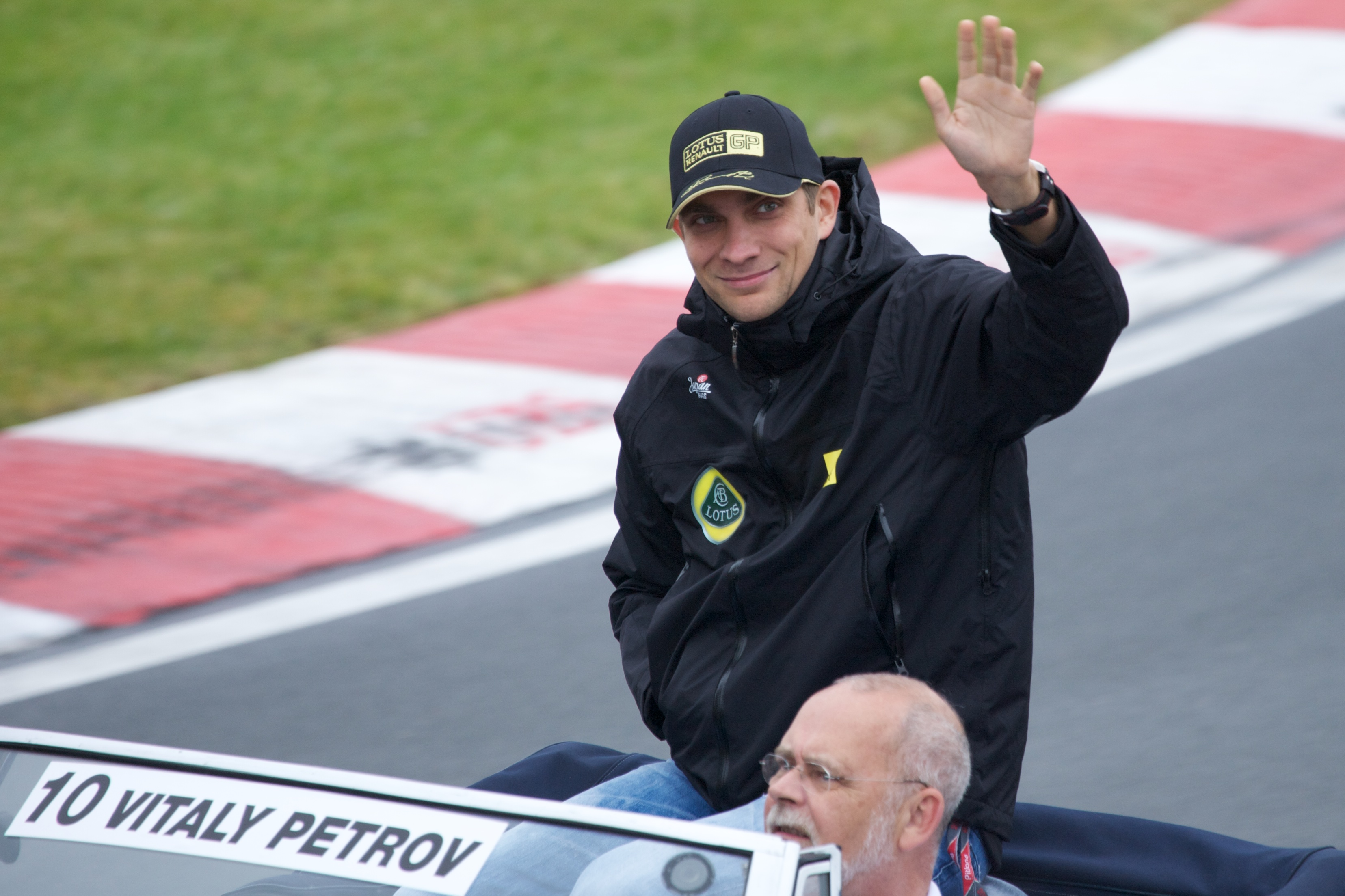 2011 Canadian Grand Prix